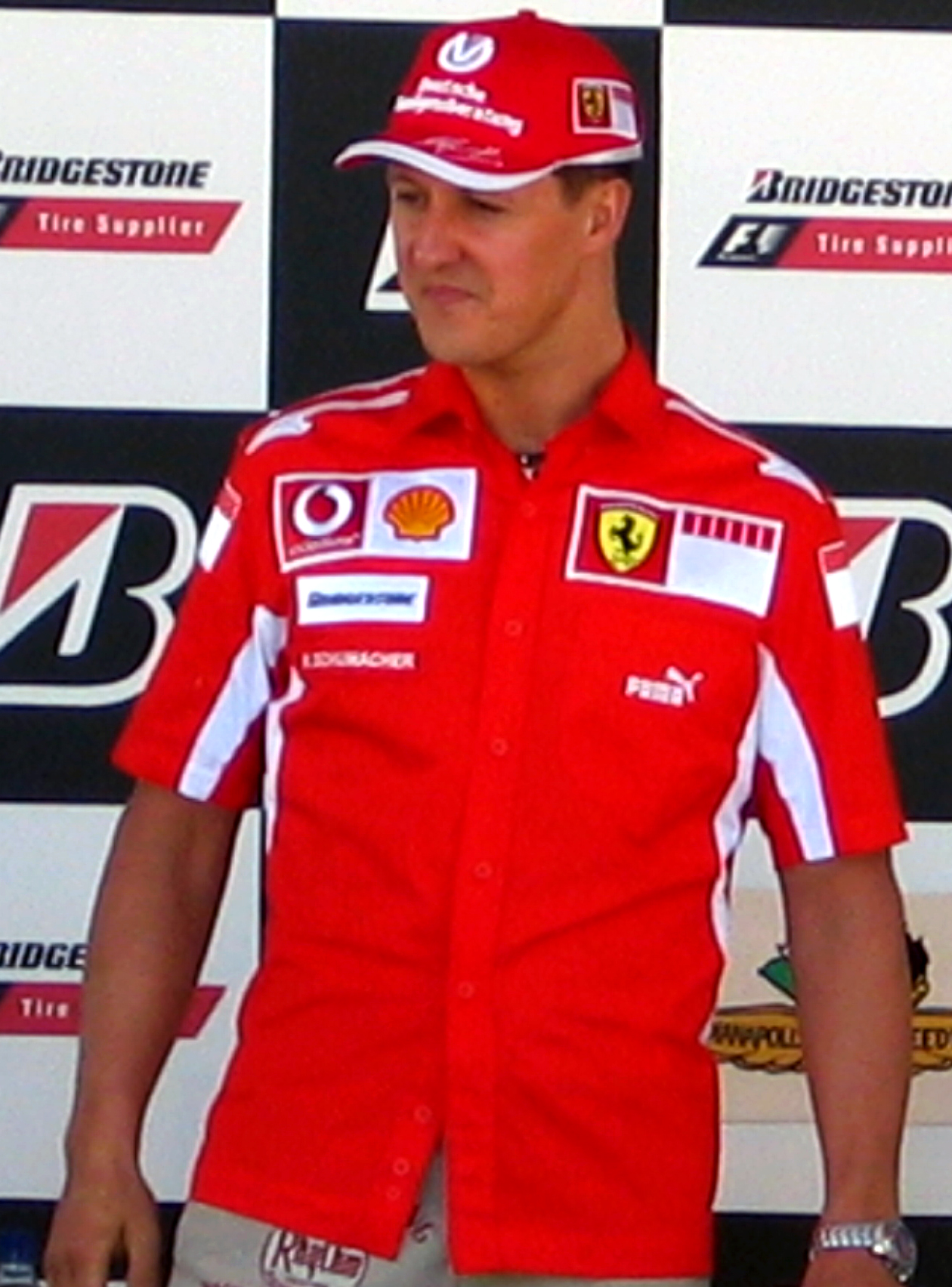 Michael Schumacher at a press conference at the 2005 US Grand Prix